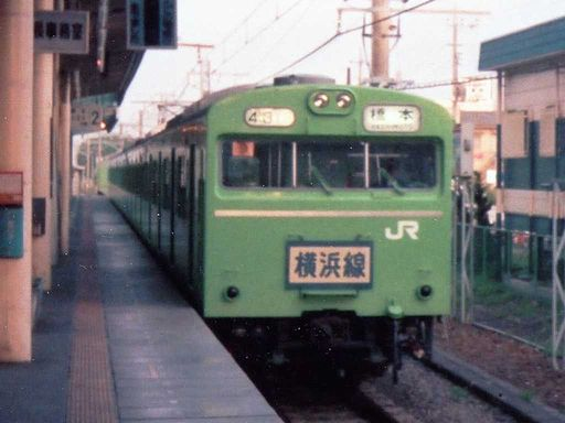 East Japan Railway Company, EMU type 103 Yokohama Line at Fuchinobe Sta.